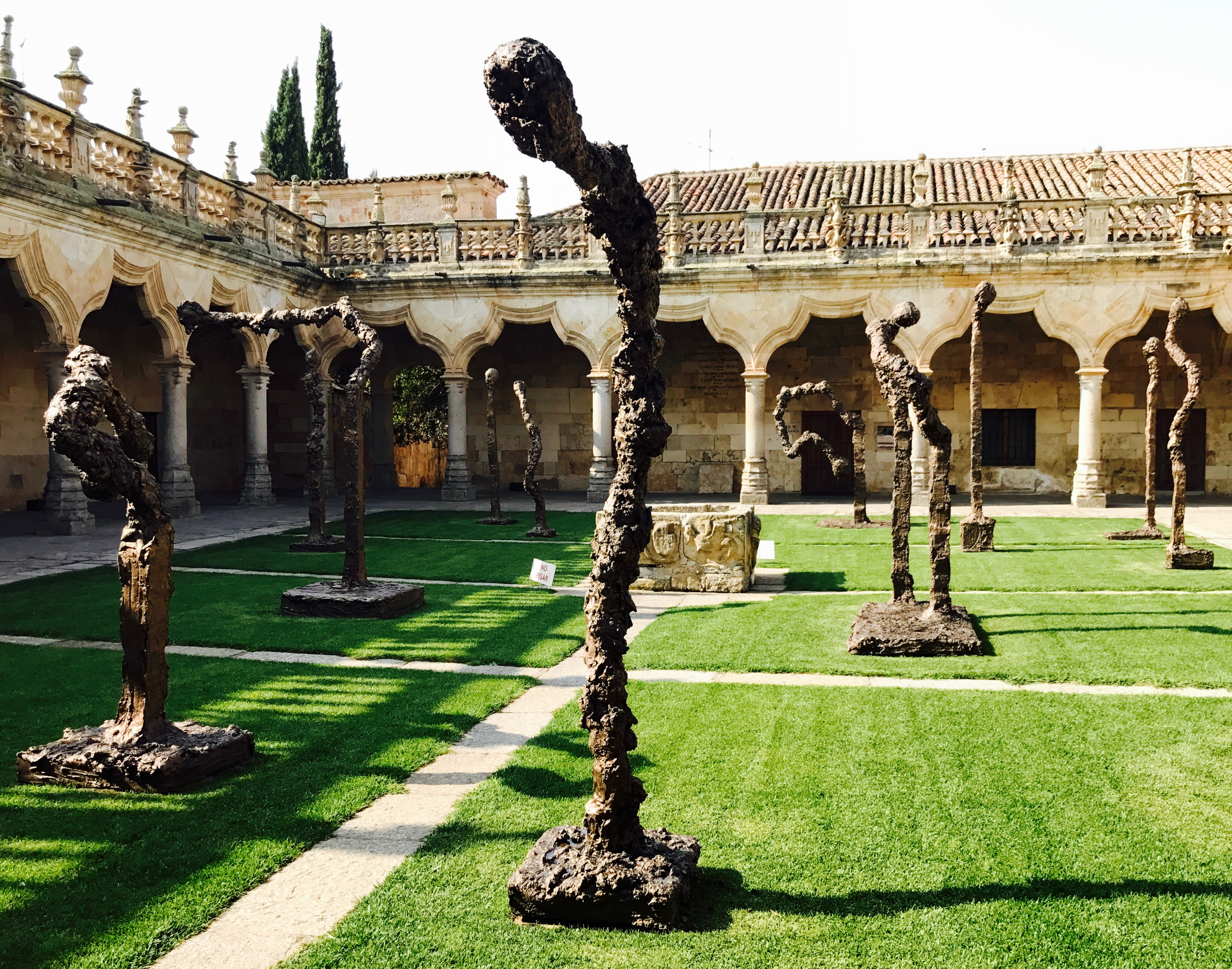 Caceres to Zamora by mountain bike